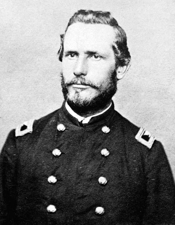 West Virginia politician George R. Latham.